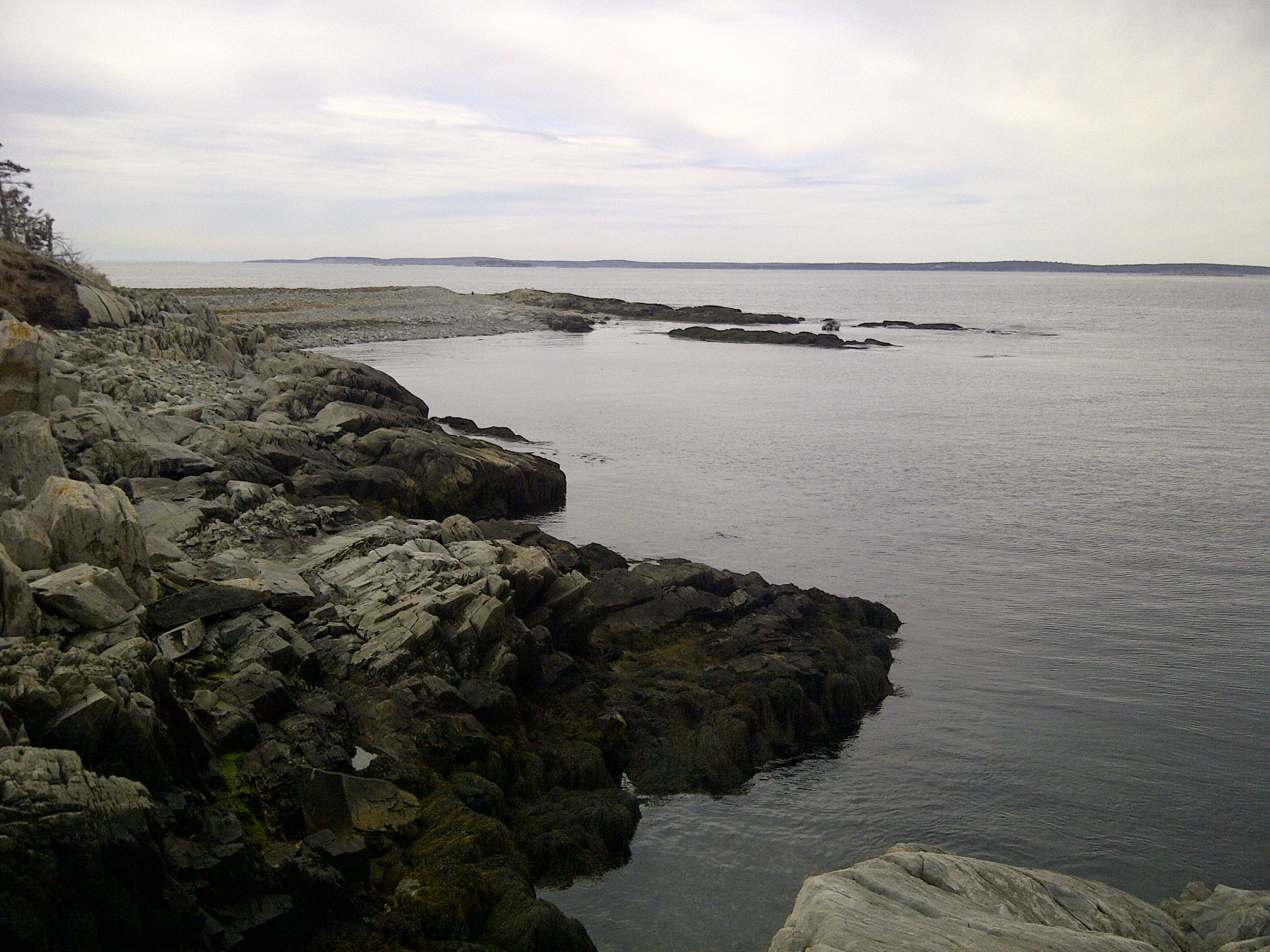 The northern end of Long Island, Nova Scotia. This island, located about 5 km south of Clam Harbour Beach provincial park, is filled with seabird (gull/heron) nests during breeding season, and was never inhabited.